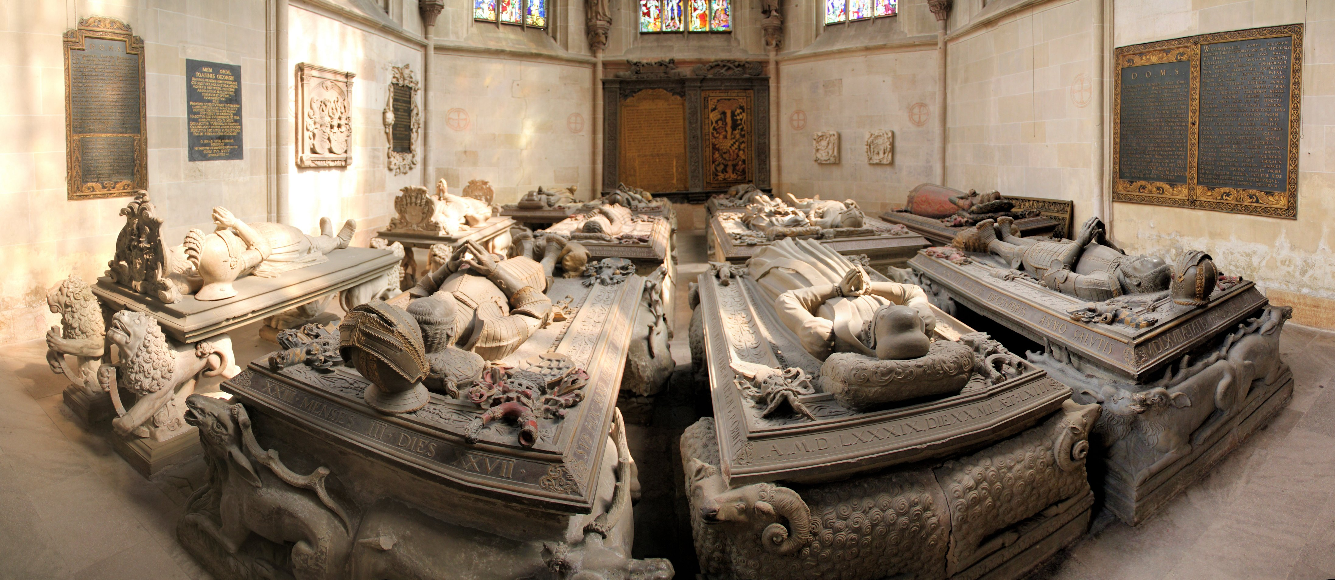 Burial ground in the choir of St. George's Collegiate Church, Tübingen, Germany.